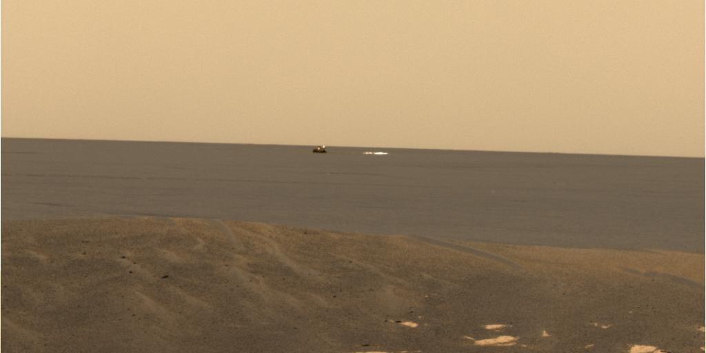 From its new location at the inner edge of the small crater surrounding it, the Mars Exploration Rover Opportunity was able to look out to the plains where its backshell (left) and parachute (right) landed. Opportunity is currently investigating a rock outcropping with its suite of robotic geologic tools. This approximate true-color image was created by combining data from the panoramic camera's red, green and blue filters.